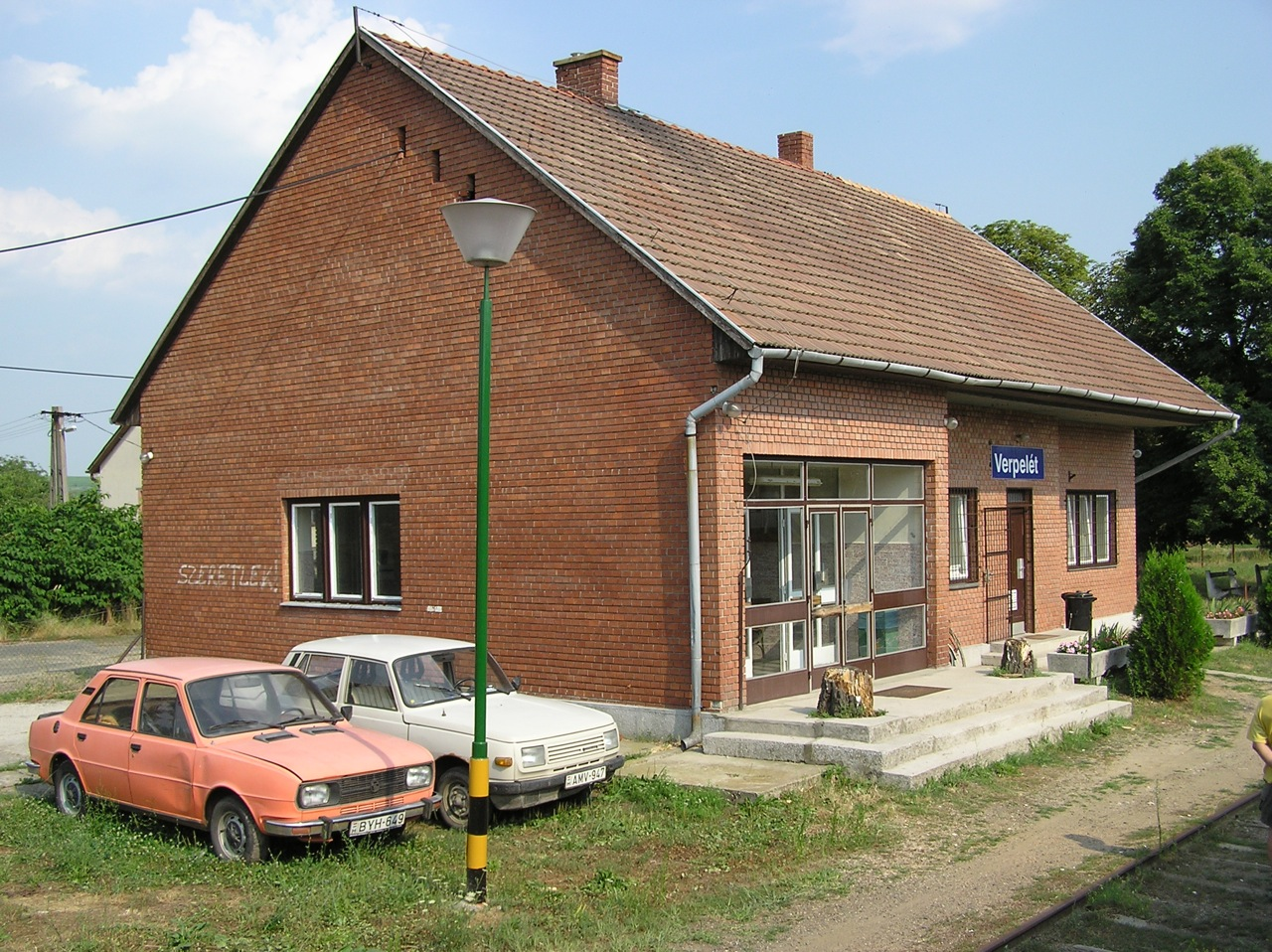 Railway station in Verpelét; Hungary